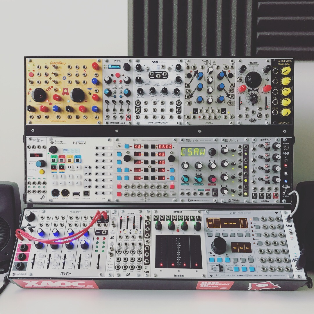 9U modular synthesizer. “9U Eurorack Modular Synthesizer containing a variety of modules from Endorphin.es, Intellijel, 4MS, Make Noise, Doepfer, ALM, Squarp Instruments, Orthogonal Devices, Mutable Instruments, XAOC Devices and QU-Bit”— "Eurorack" on English Wikipedia